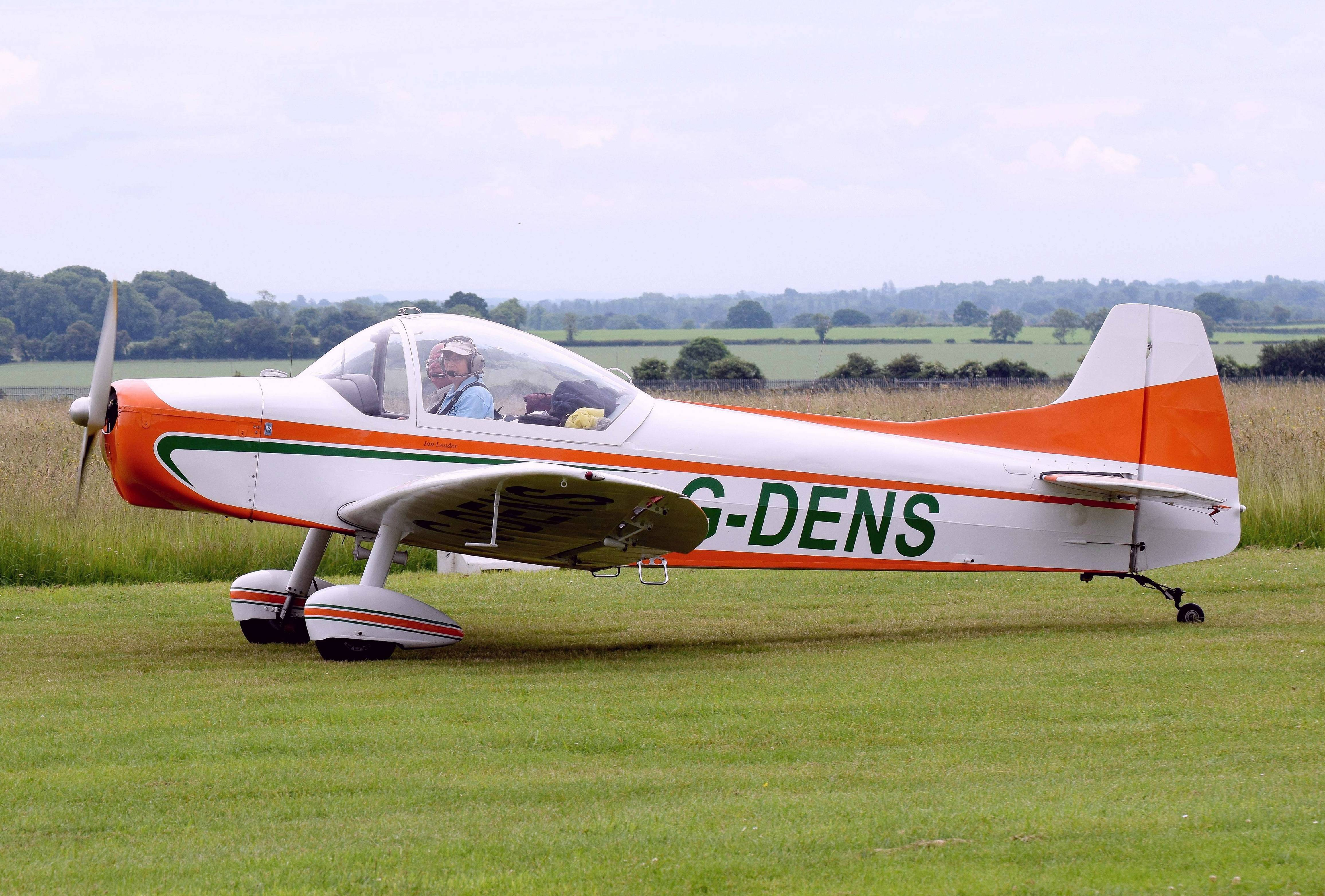 Binder Aviatik CP-301S Smaragd at Cotswold Airport, Gloucestershire, England. UK registration G-DENS. Date of build 1963.